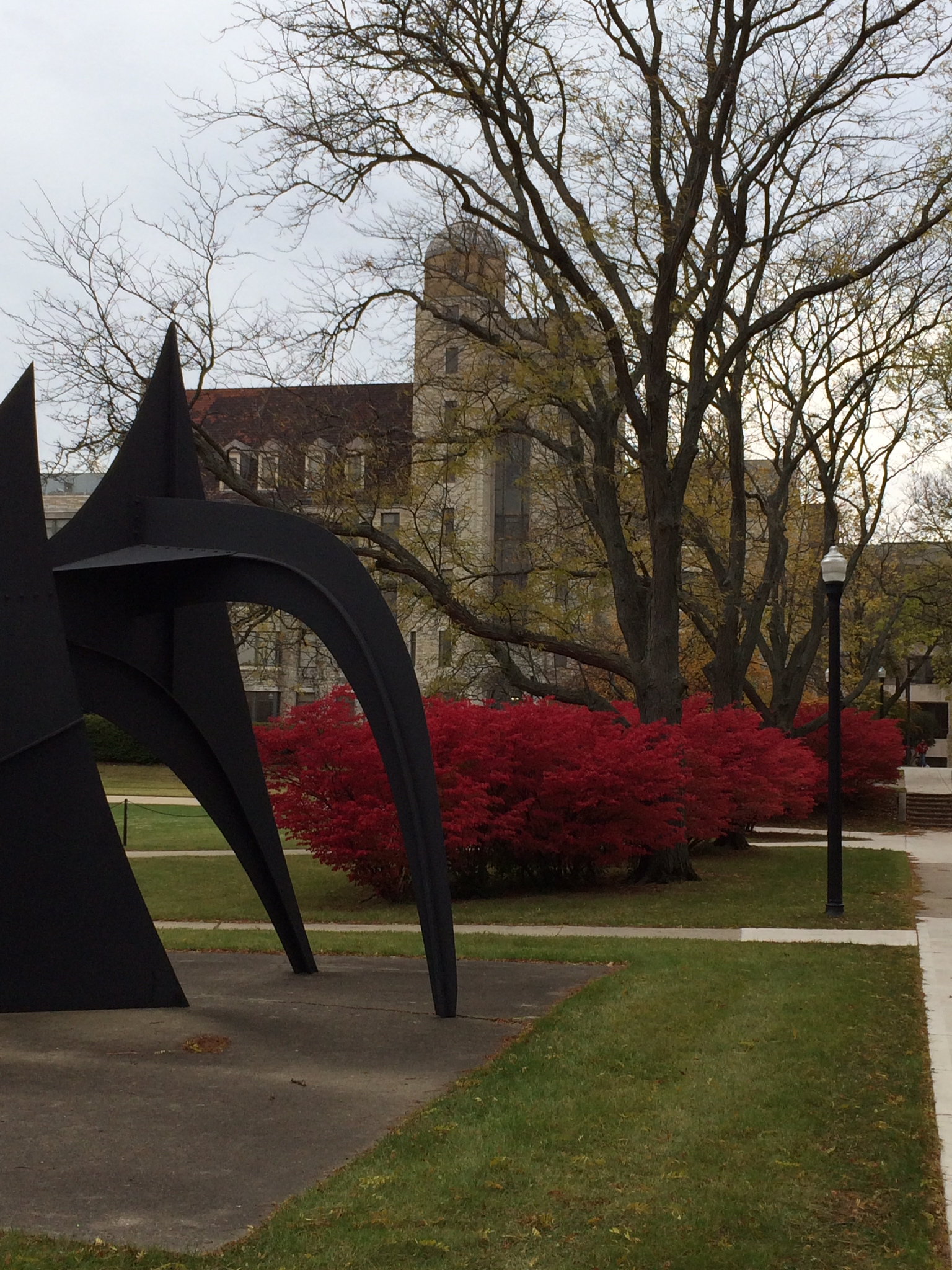 Davis Hall from Central Quad at Northern Illinois University.